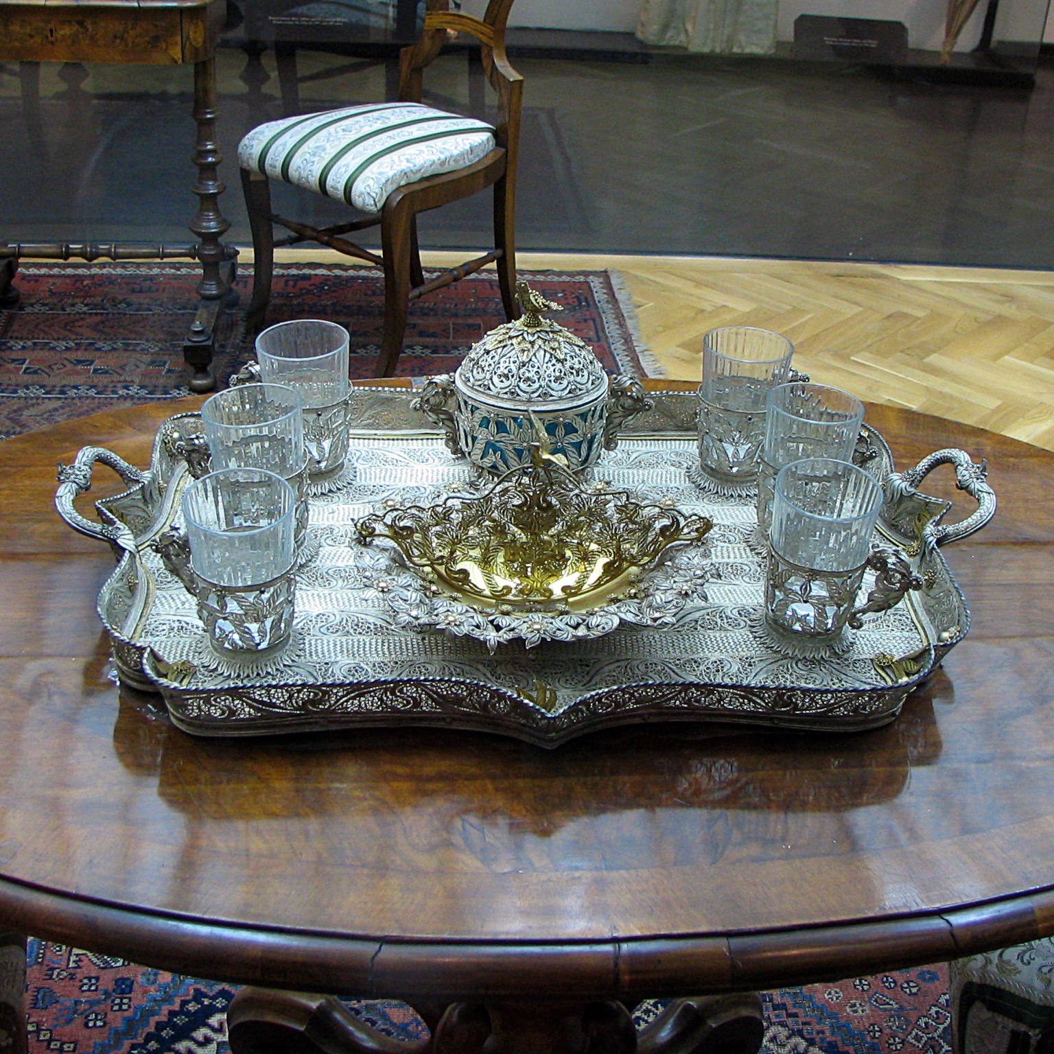 Tableware for serving slatko and water (Serbian custom)